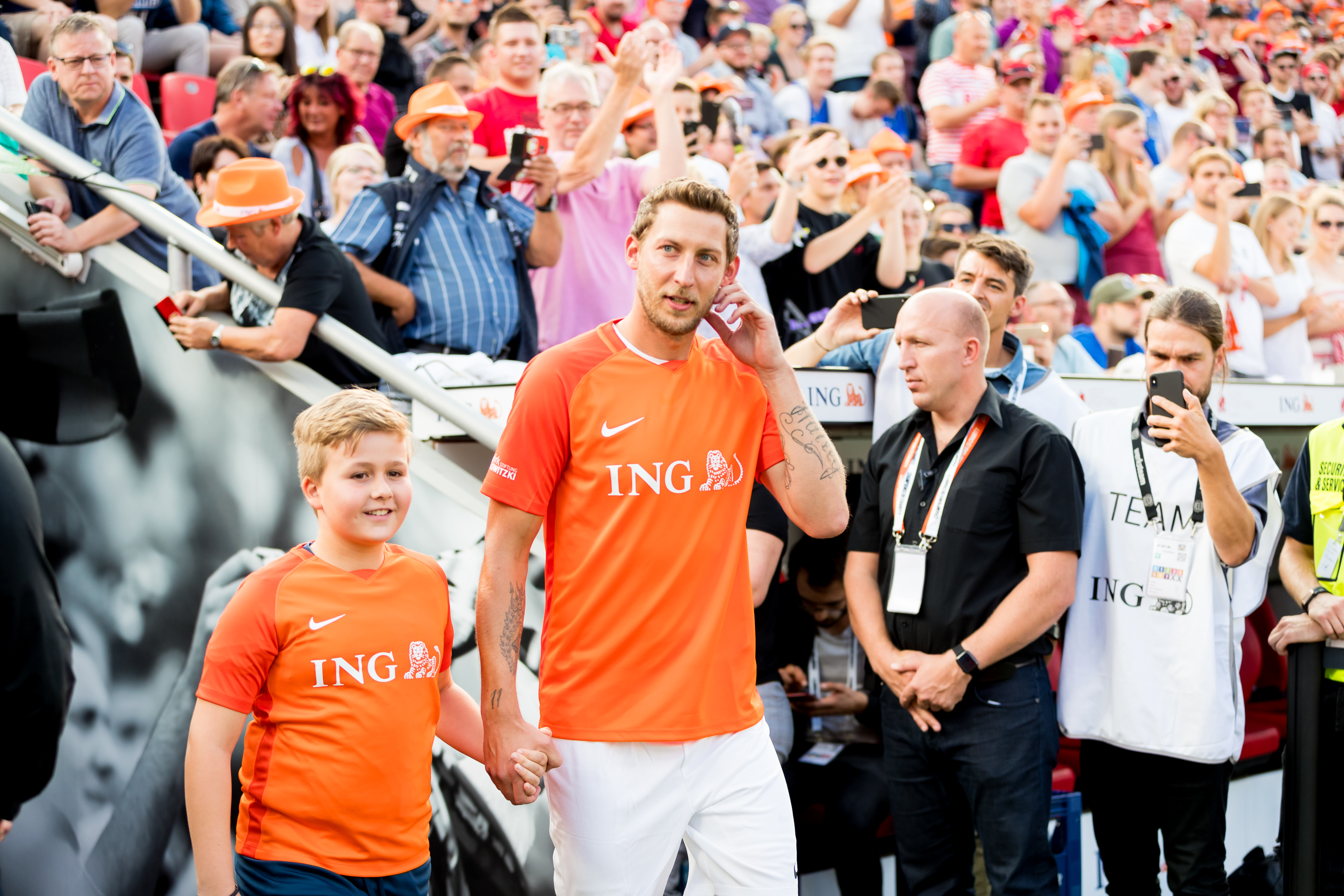 Stefan Kießling during Champions for Charity at BayArena, Leverkusen, Nordrhein-Westfalen, Germany on 2019-07-21, Photo: Sven Mandel